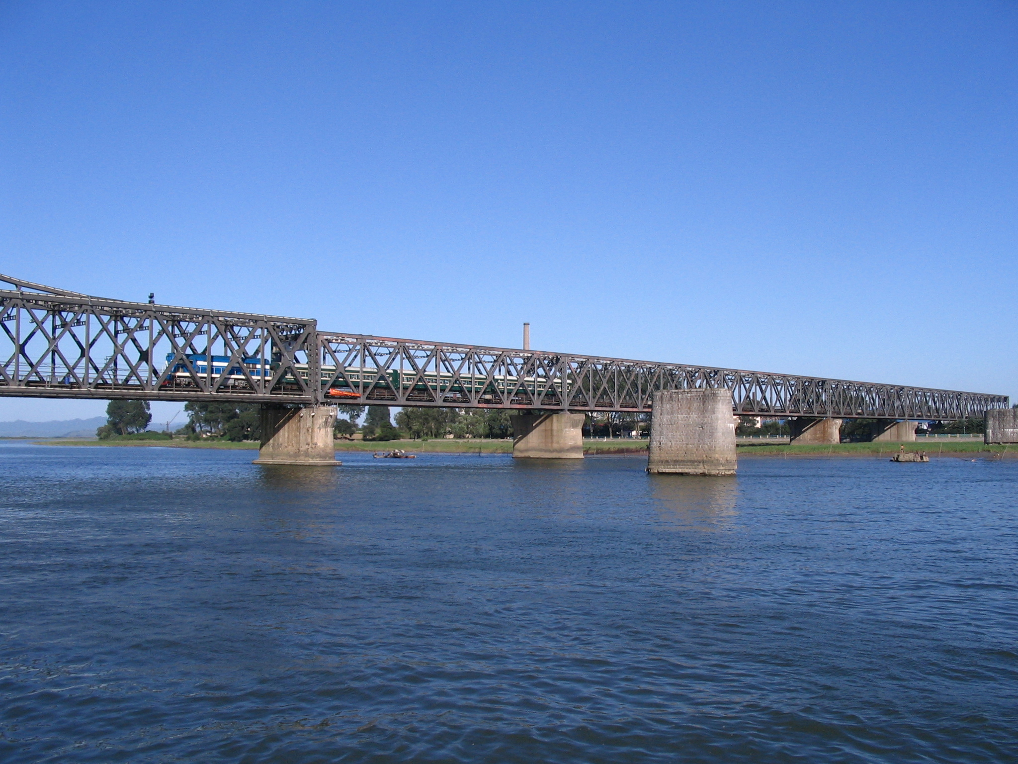 Sino-Korea Friendship Bridge